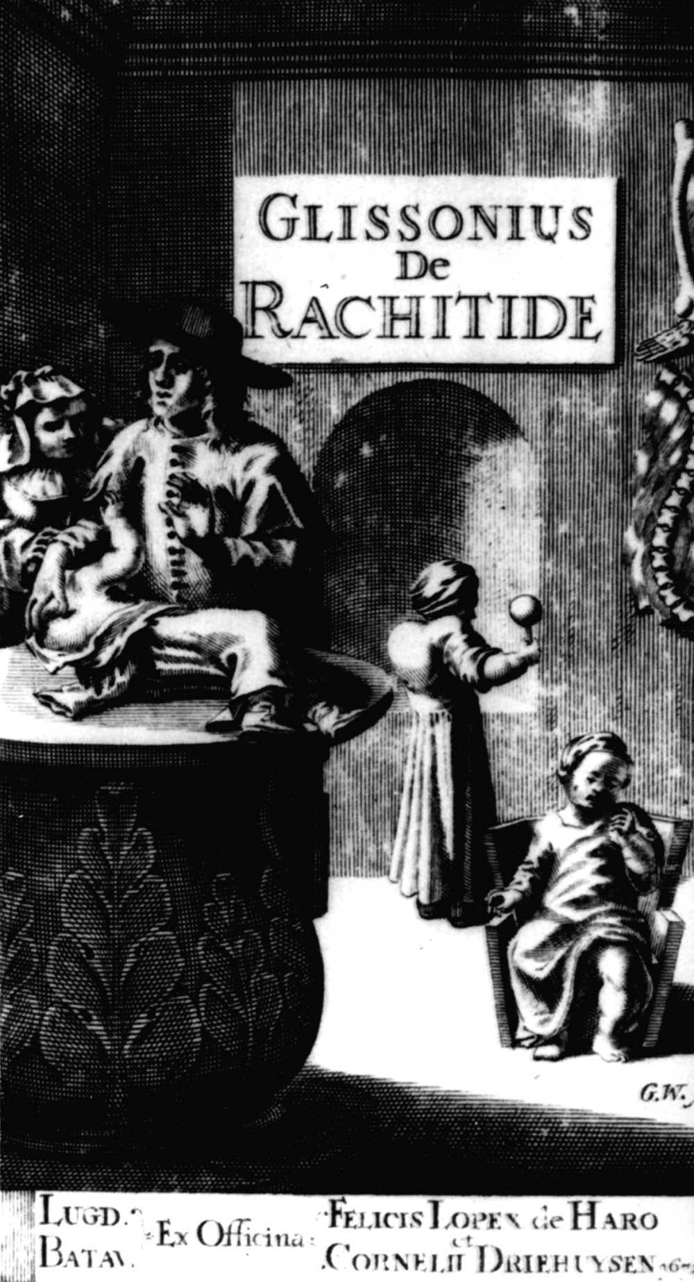 Title-page of Francis Glisson's publication De Rachitide sive morbo puerili ..., Leiden 1672. The engraving shows deformed and suffering children. (Paris, Library of the Old Faculty of Medicine)